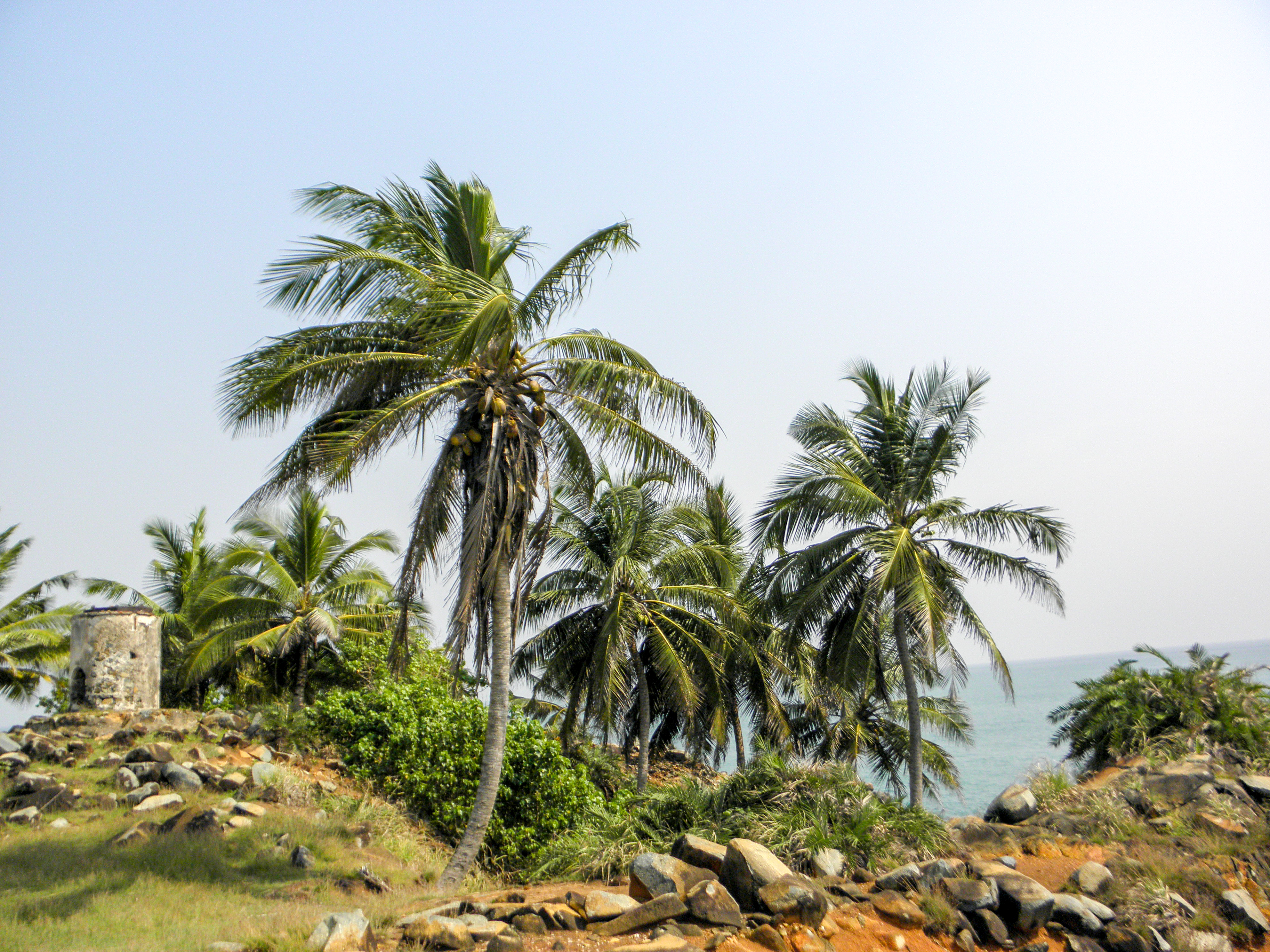 Cape Three Points and ruin of the first lighthouse built in 1875 in Ghana.